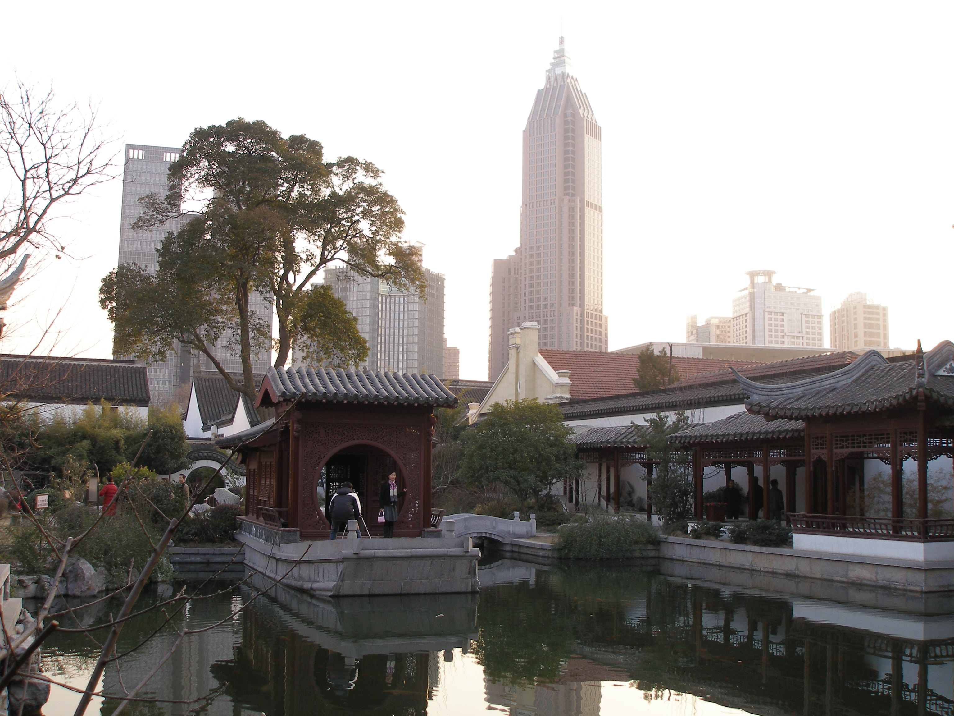 garden3 of zhongtongfu in Nanjing